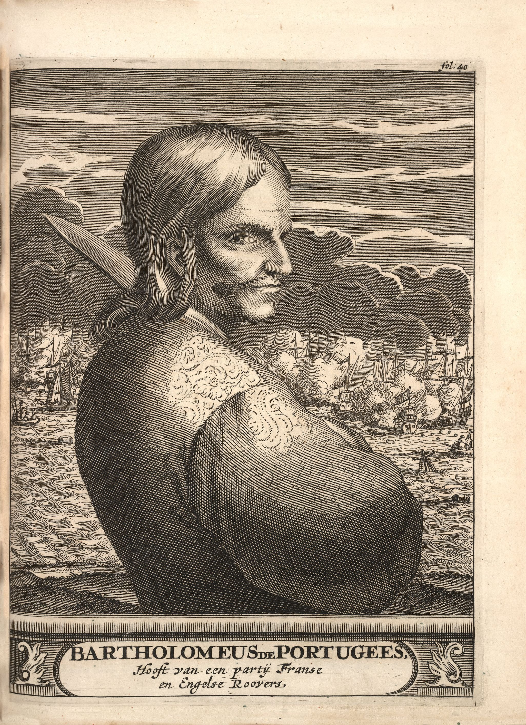 Page number 7 of The Buccaneers of America